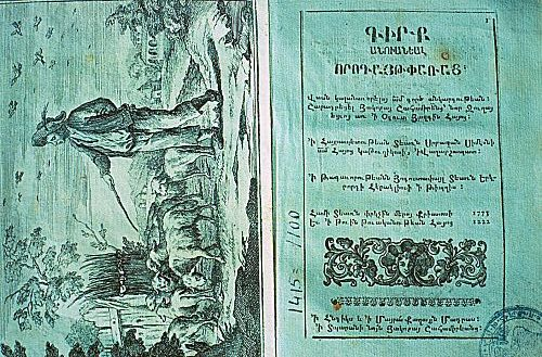 Vorogayt' parats', Shahamirian, Madras, 1773.